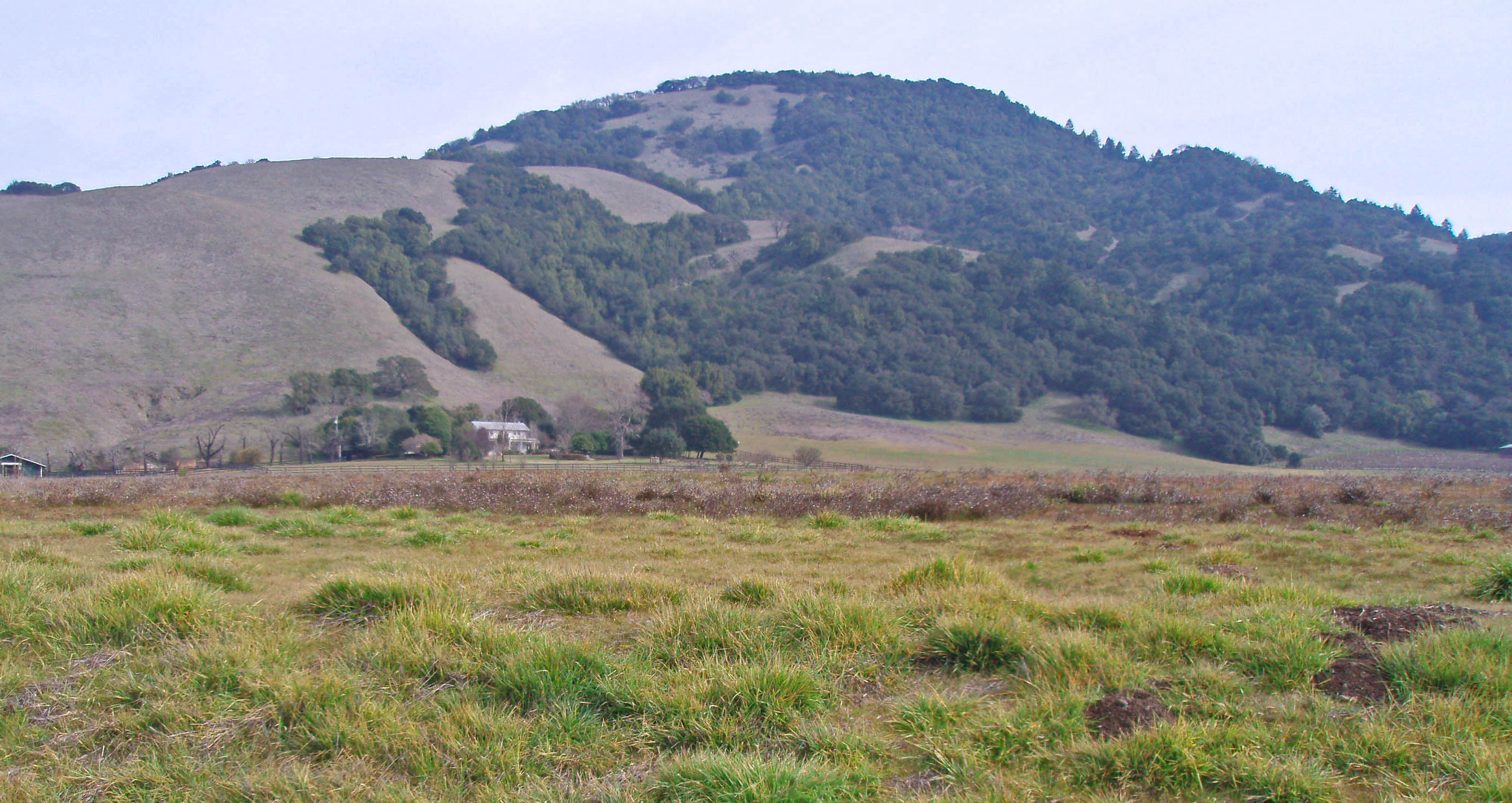 subject: bennett ridge, sonoma Mountains, sonoma co calif from bennet valley; date: feb 5 2007 11;00 AM; Photographer: self